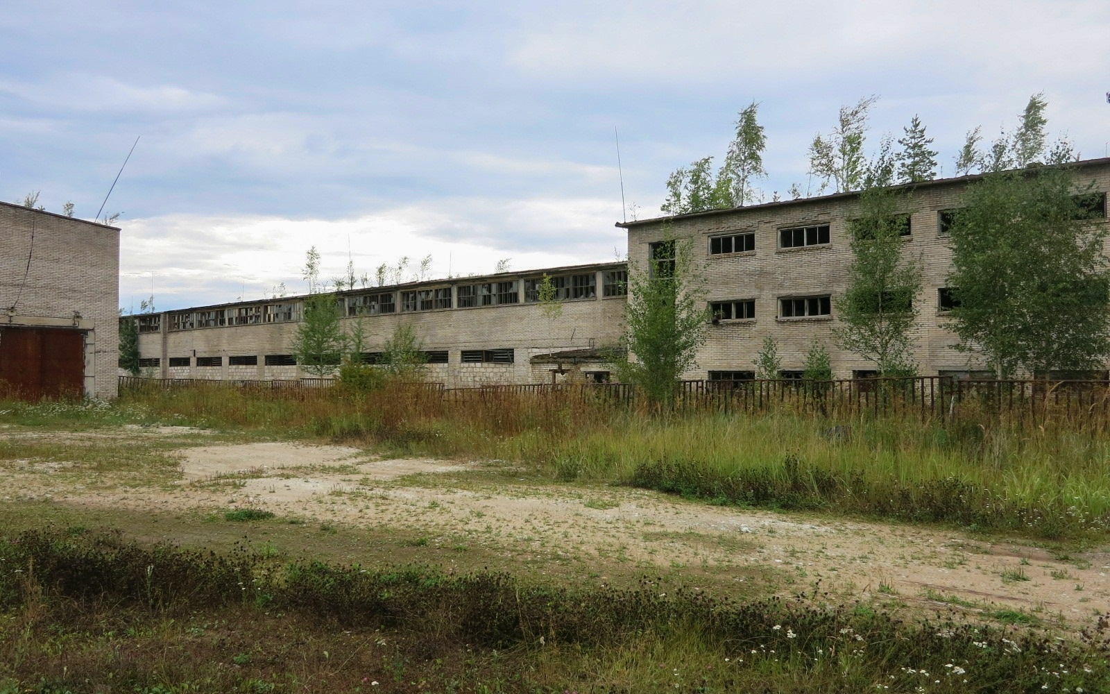 Previous factory of peat products in Oru (Ida-Viru County, Estonia). In the second half of 1990s, one of the Estonian three big peat factories was closed, but the remaining two are functioning until now.